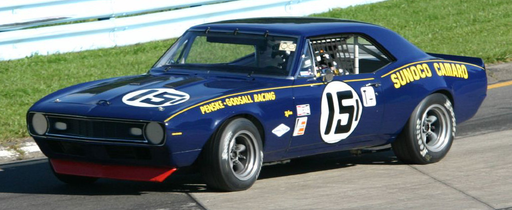 1968 Penske-Godsall Racing Sunoco Camaro at the 2004 Watkins Glen SVRA